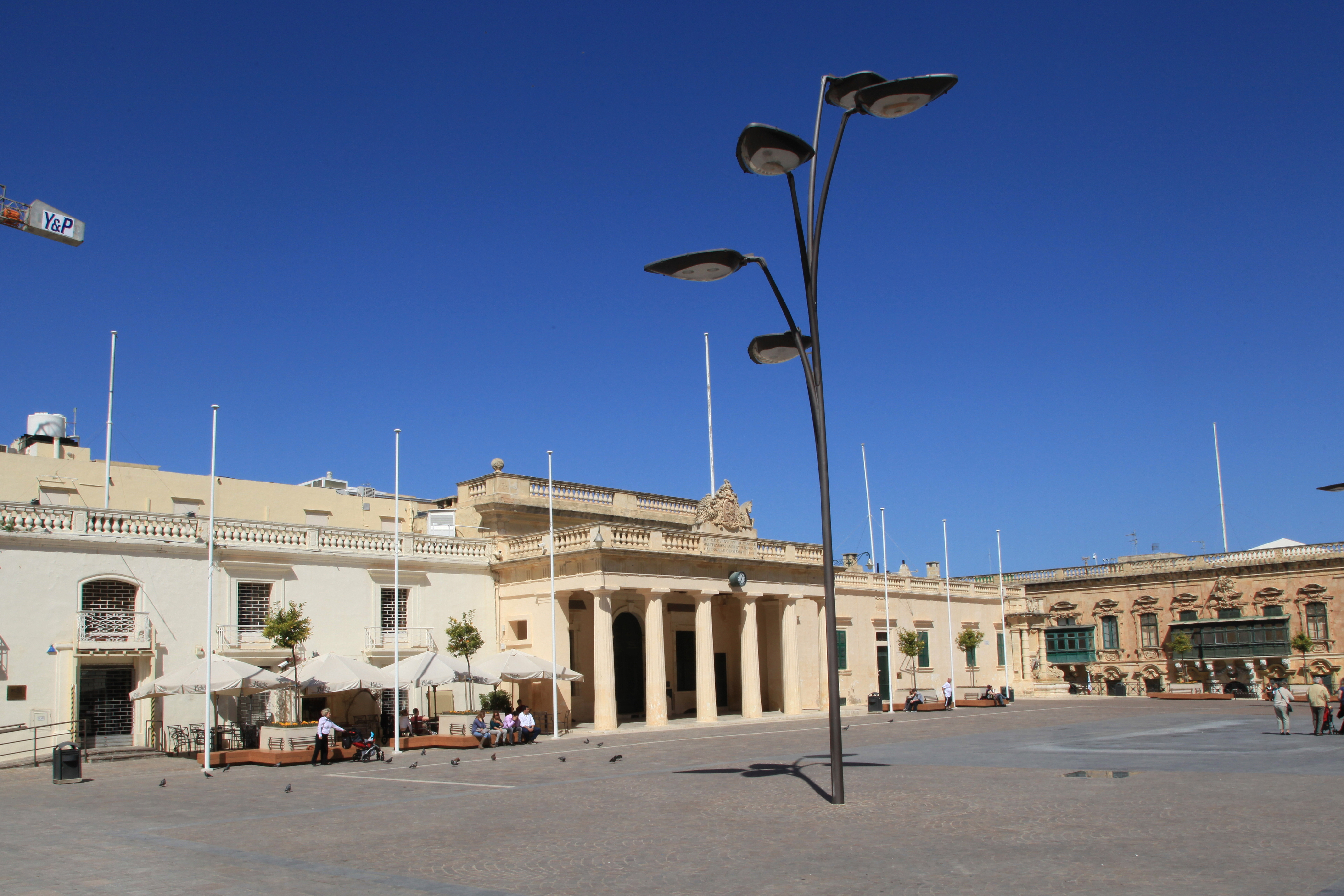 Office of the Attorney General at Misraħ San Ġorġ, Triq ir-Repubblika in Valletta, Malta